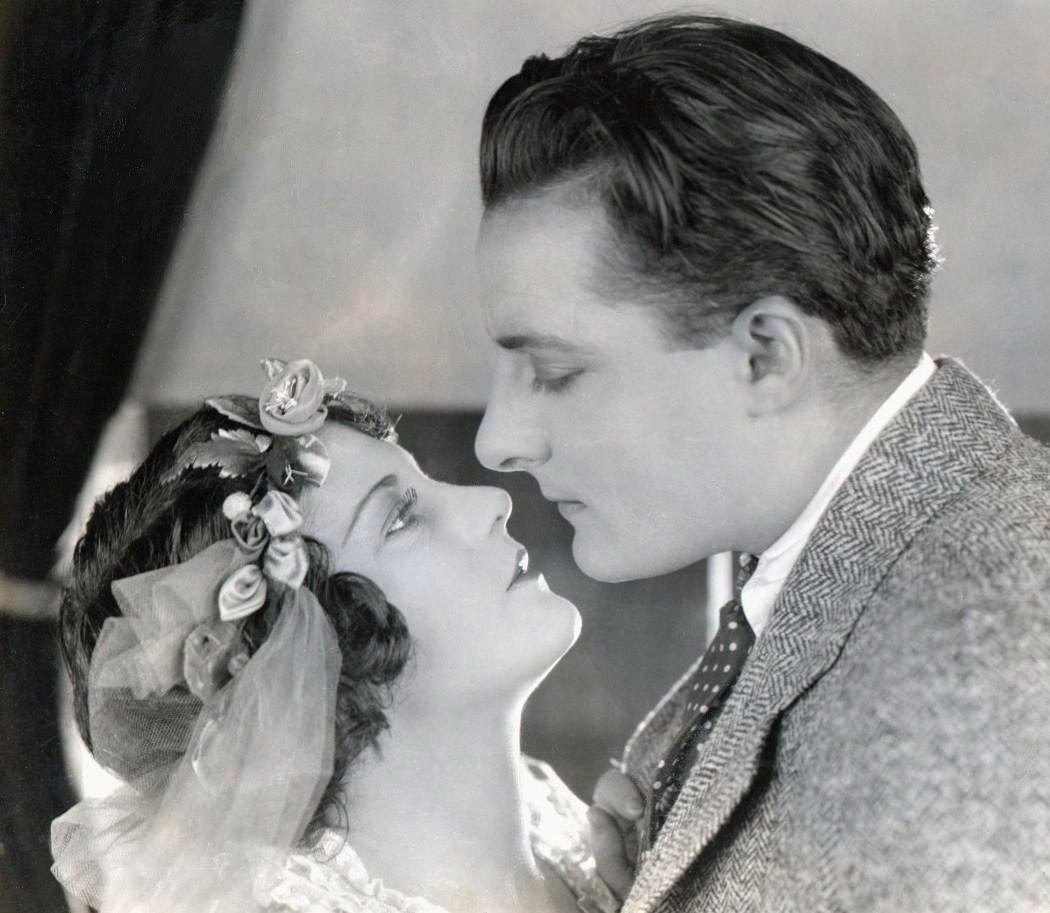 Viola Dana and Gaston Glass in There Are No Villains - publicity still cropped (original image damaged - see source -, modified)